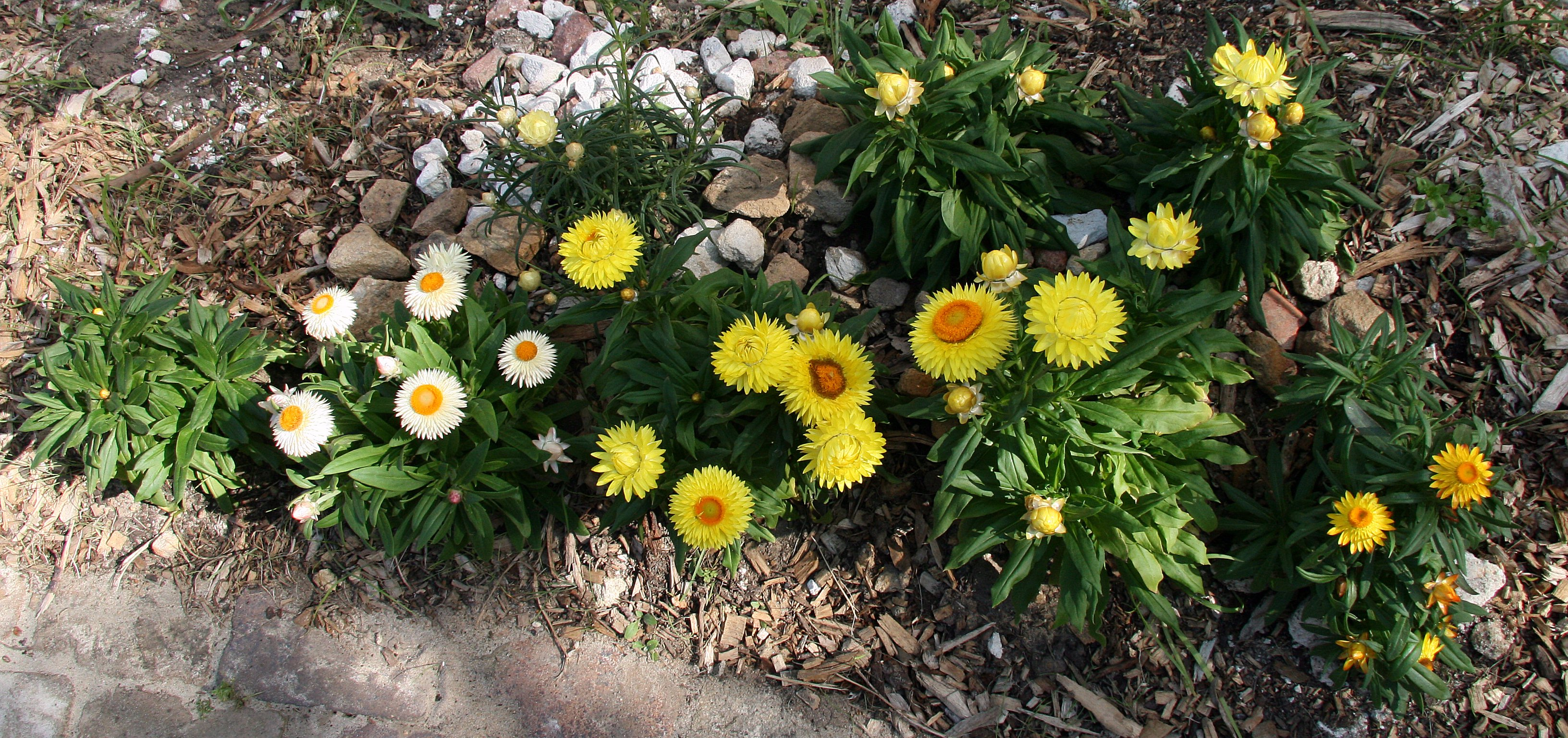 Five cultivars of Xerochrysum bracteatum in my garden. Low form at far left not in flower, "Diamond Head", cream form at bottom left, "Kimberley Sunset", 4 x large yellow flowered forms "Strawburst Yellow", thin-leaved form in bud at top "Mallee Sun", far right small bronze-flowered form "Sundaze Dazette Mambo"